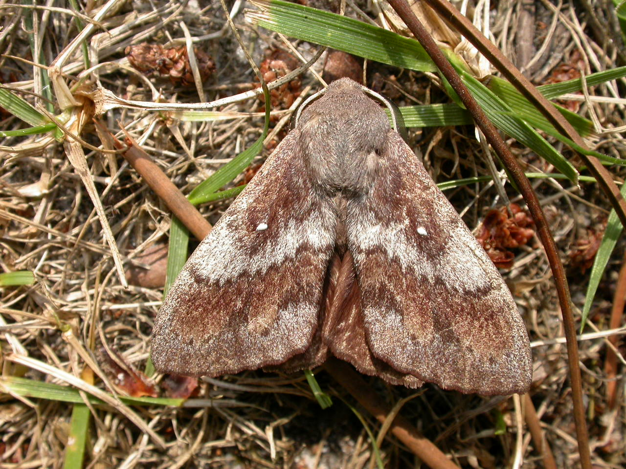 Dendrolimus pini